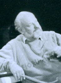 Ranko Munitić (1943-2009), standing, with Želimir Žilnik & Dušan Makavejev, TVNS 1989